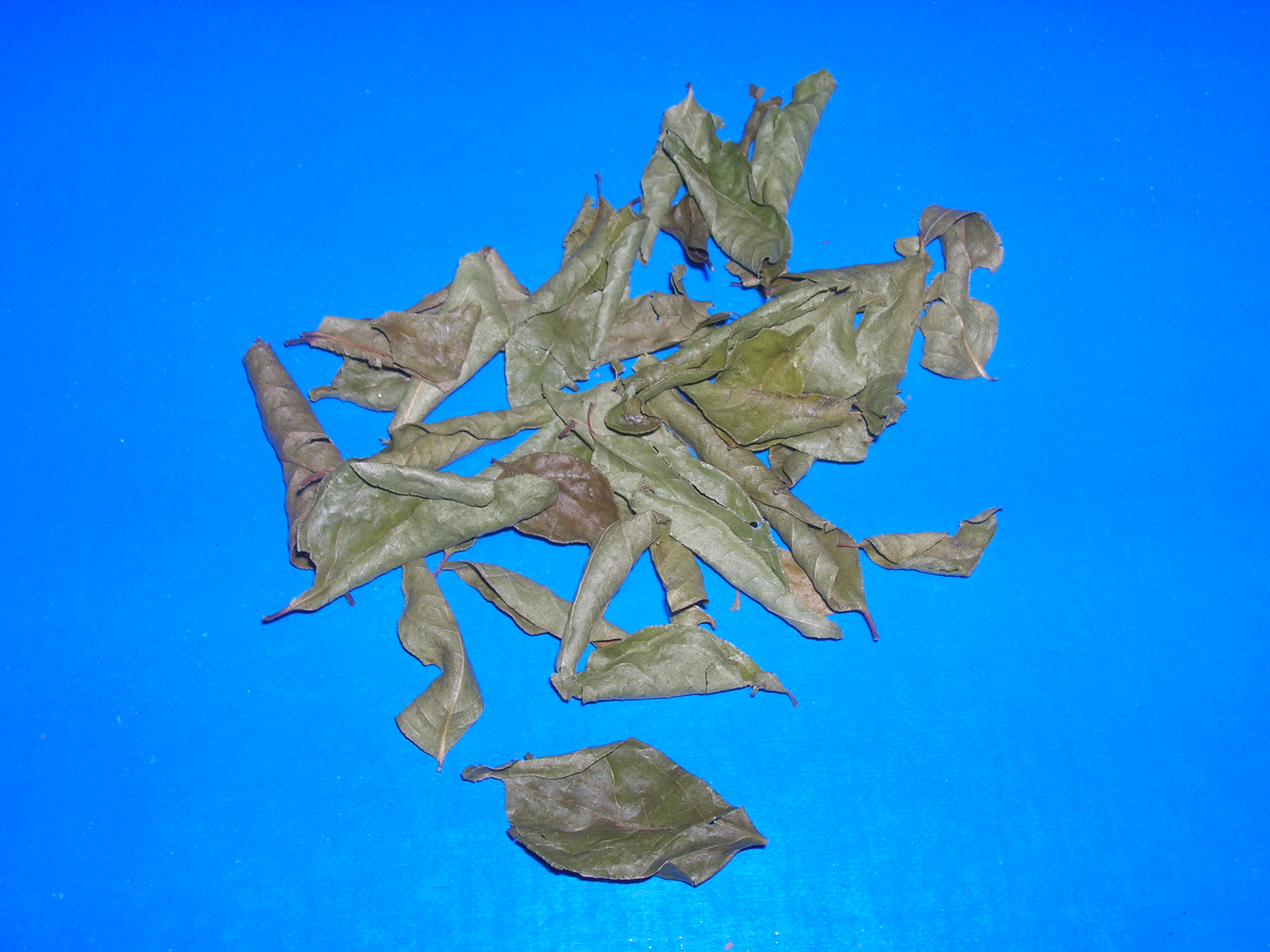 curry leaf